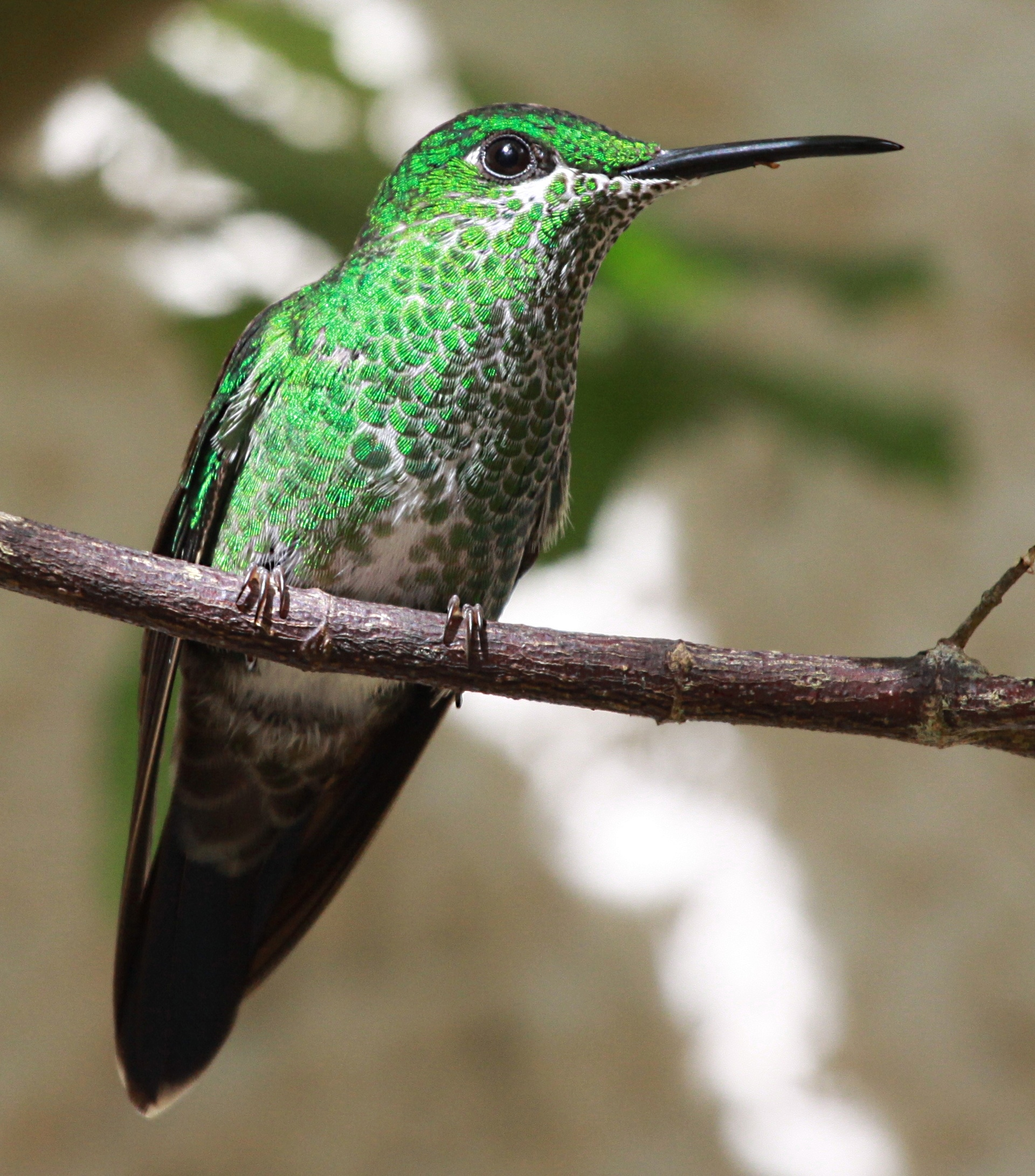 Green-crowned Brilliant (Heliodoxa jacula).